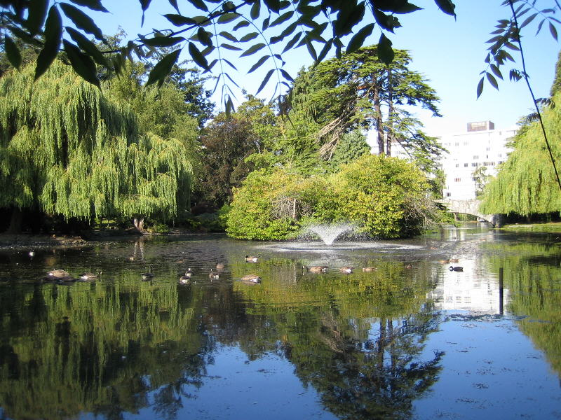 Beacon Hill Park (16.08.06)